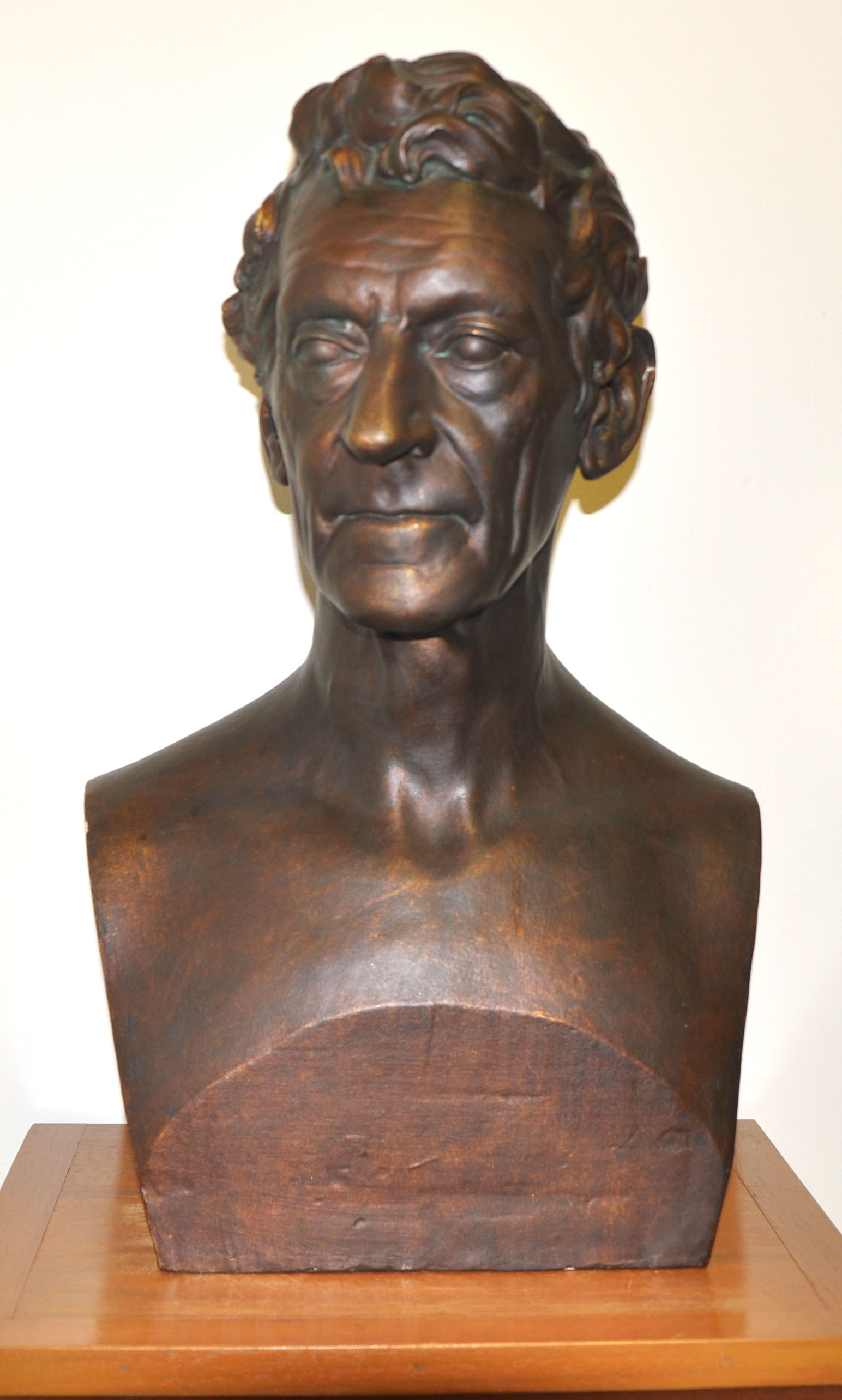 William Cranch United States Circuit Judge